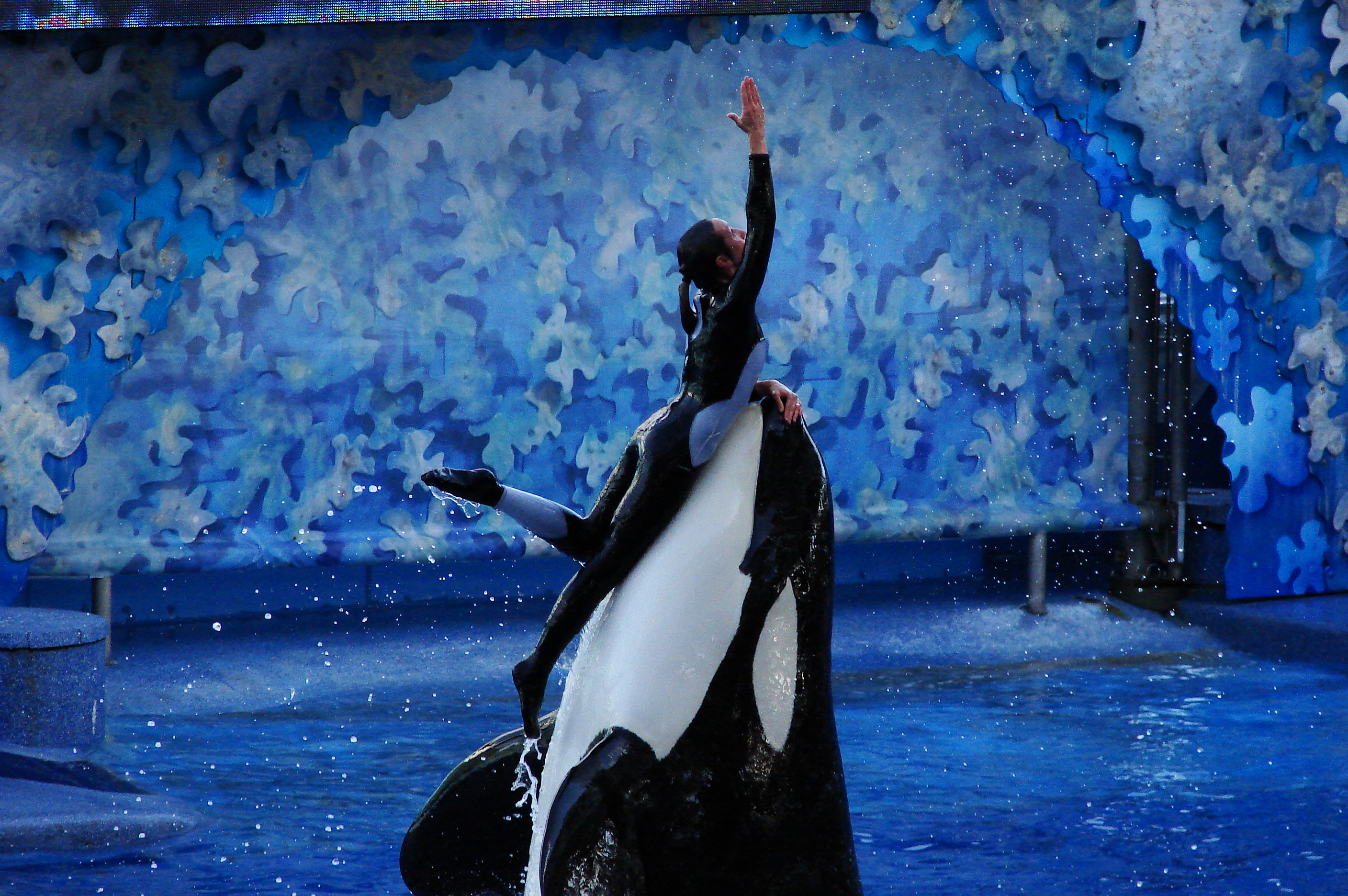 Killer whale and trainer during a Shamu performance at Seaworld in Orlando, Florida.